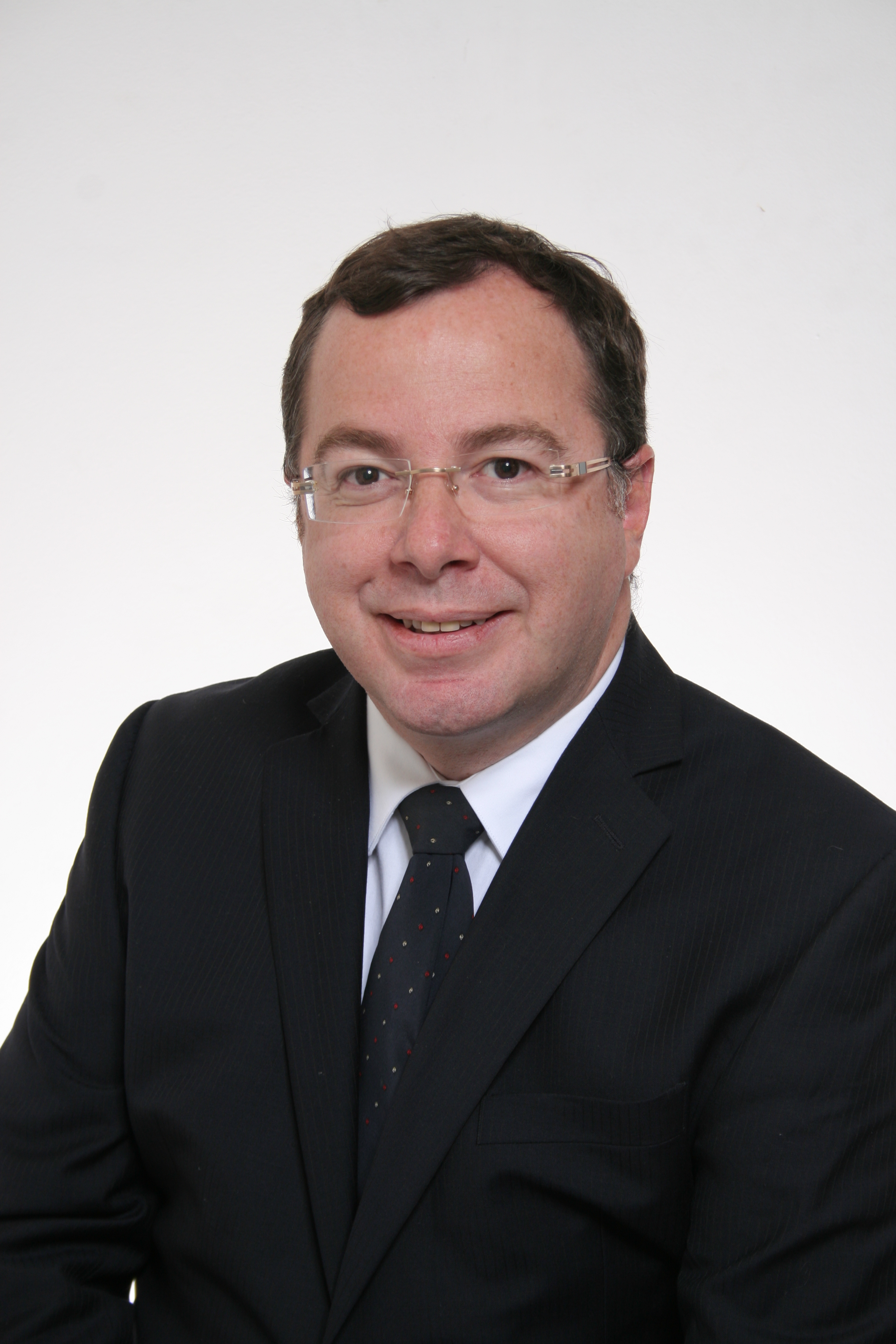 Dauro Lohnhoff Dorea, Brasco Enterprises president.